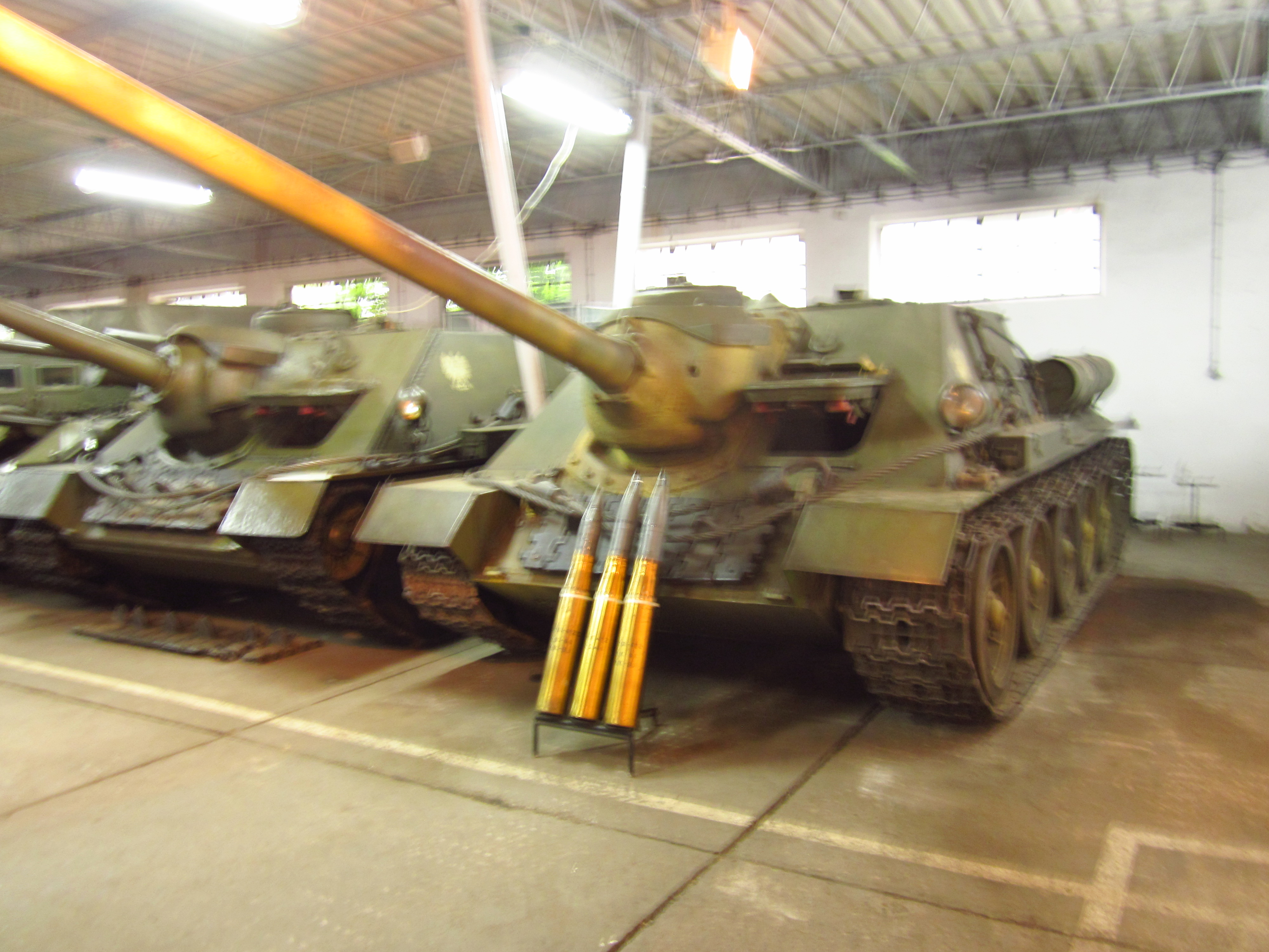 Armoured Warfare Museum in Poznań.